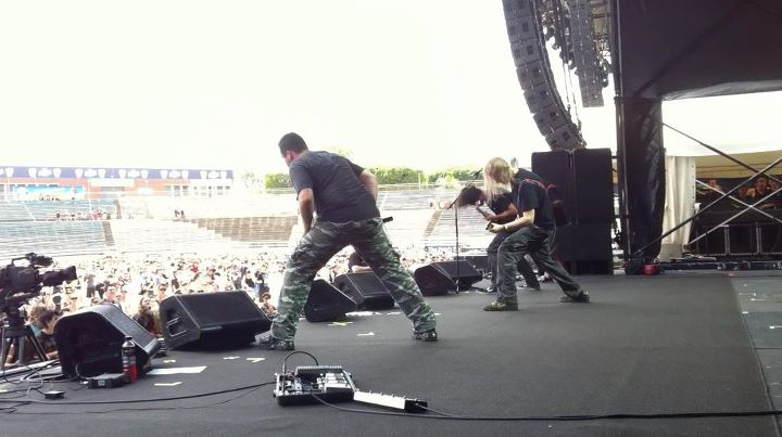 Live photo of Tria Mera at the Brisbane Soundwave Festival 2011